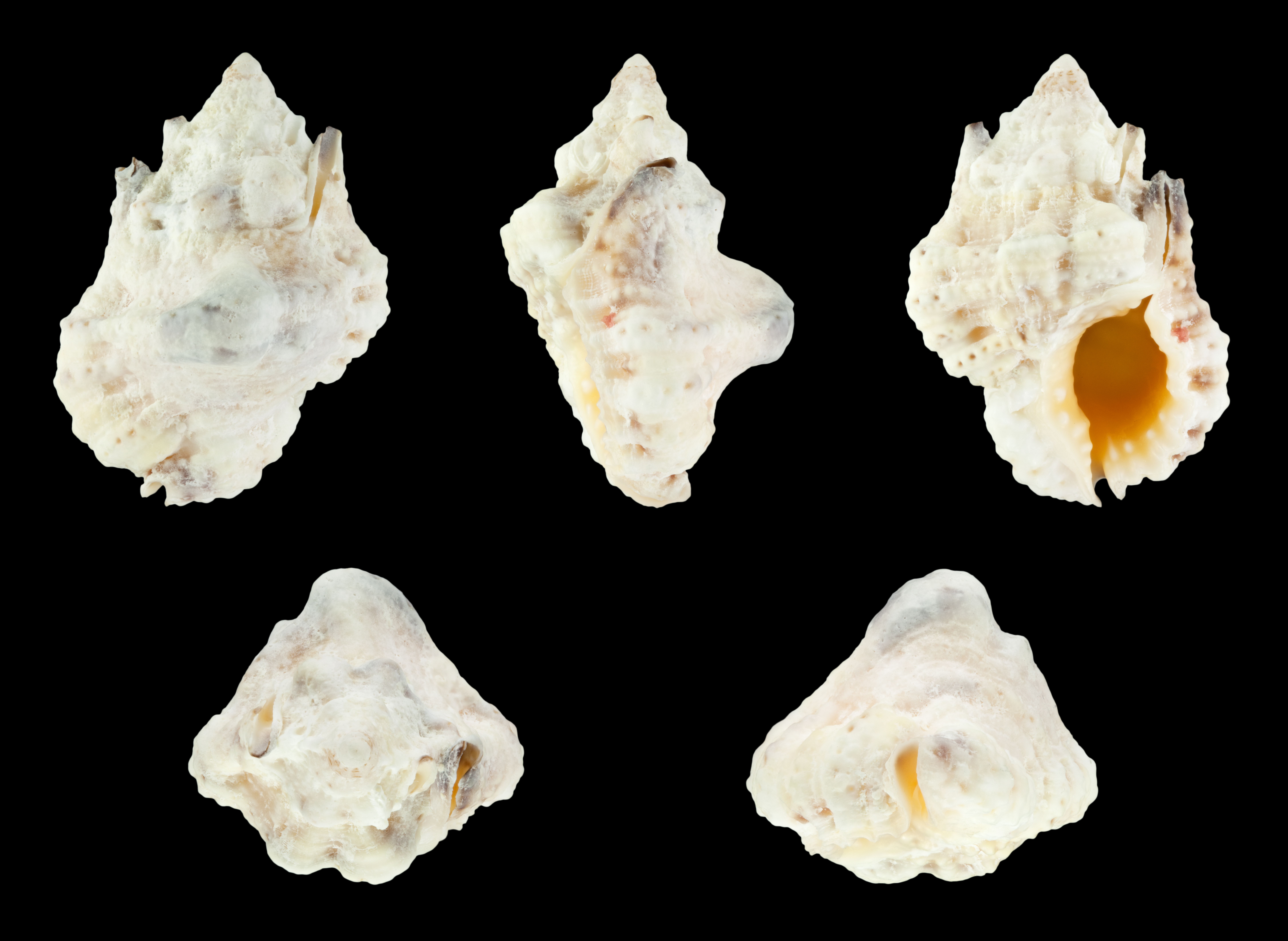 Bursa tuberosissima (Reeve, 1844), Yellow Mouthed Frog Shell; Length 2.3 cm; Originating from the Phuket Province, Thailand; Shell of own collection, therefore not geocoded.